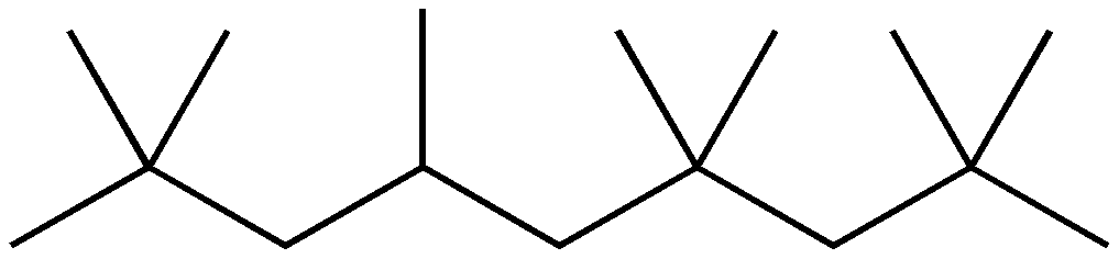 chemical structure of isocetane (2,2,4,4,6,8,8-heptamethylnonane)